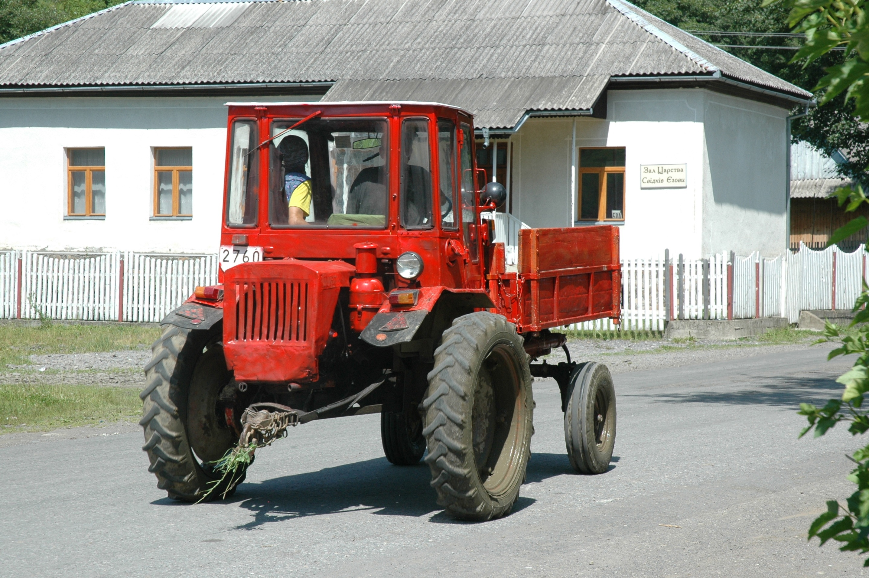 T-16MG tractor in Torun, Ukraine